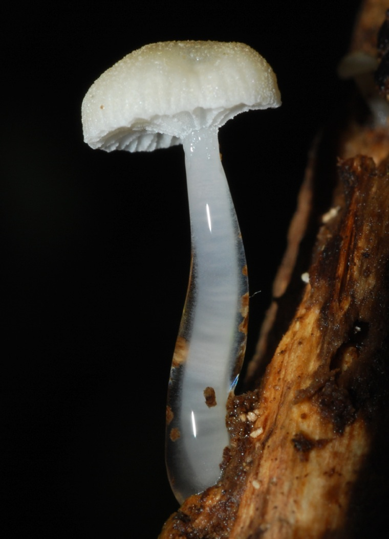 A fruit body of the fungus Roridomyces austrororidus (Singer) Rexer (1994). Specimen photographed in Auckland, New Zealand.